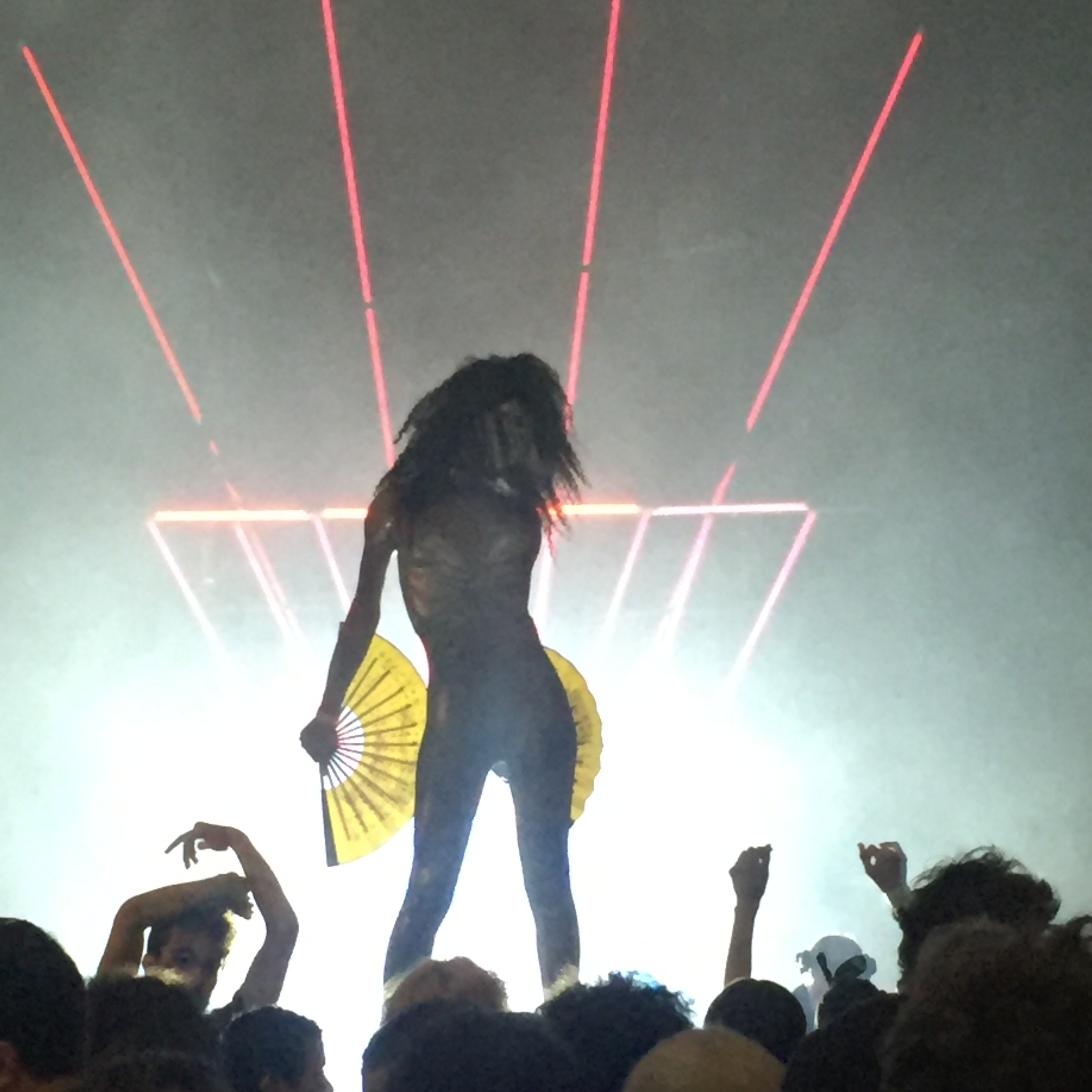 Valentina Luz, model, performcer and dj